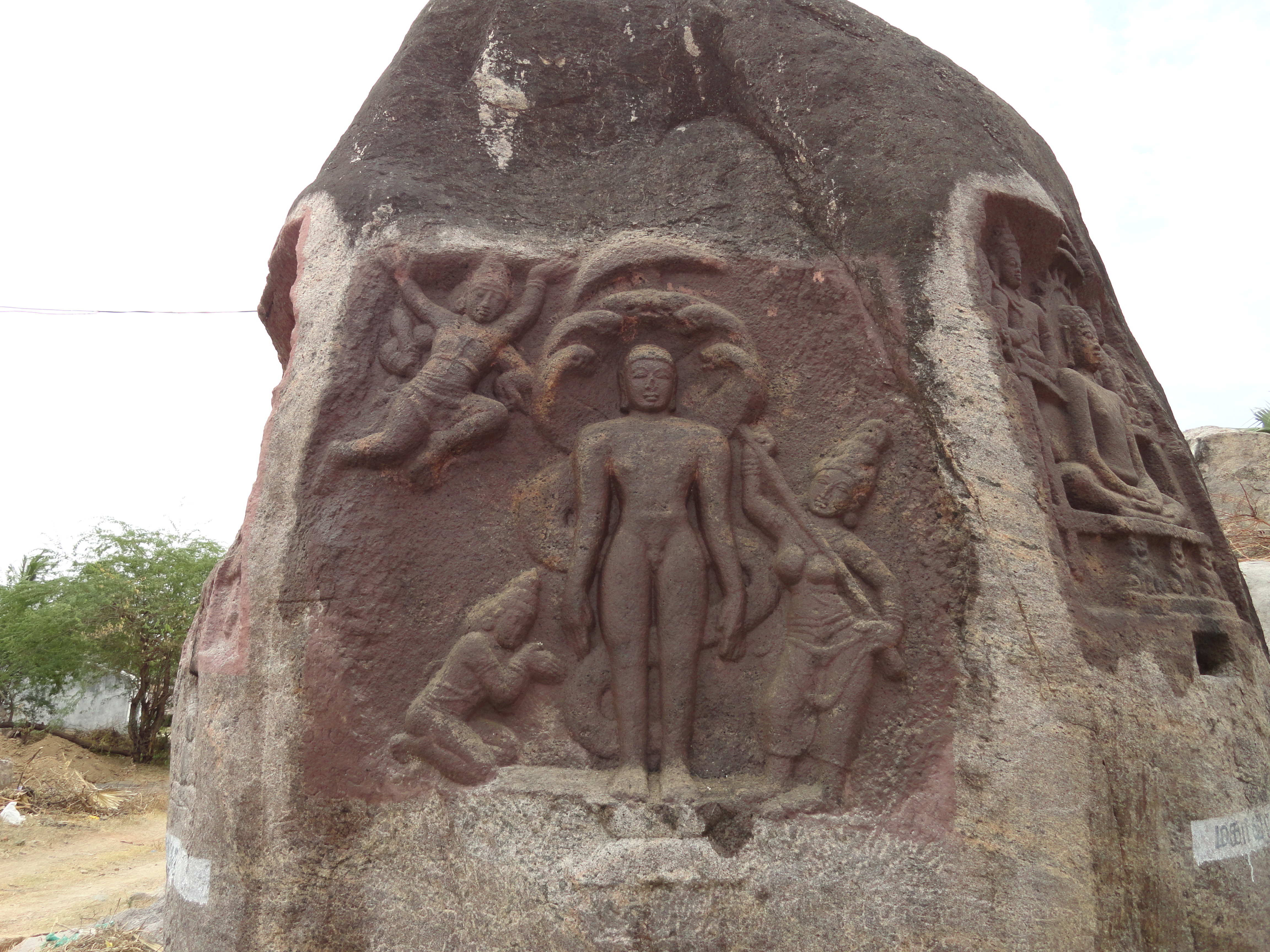 Photograph of Parsavanathar sculpture at thirakoil